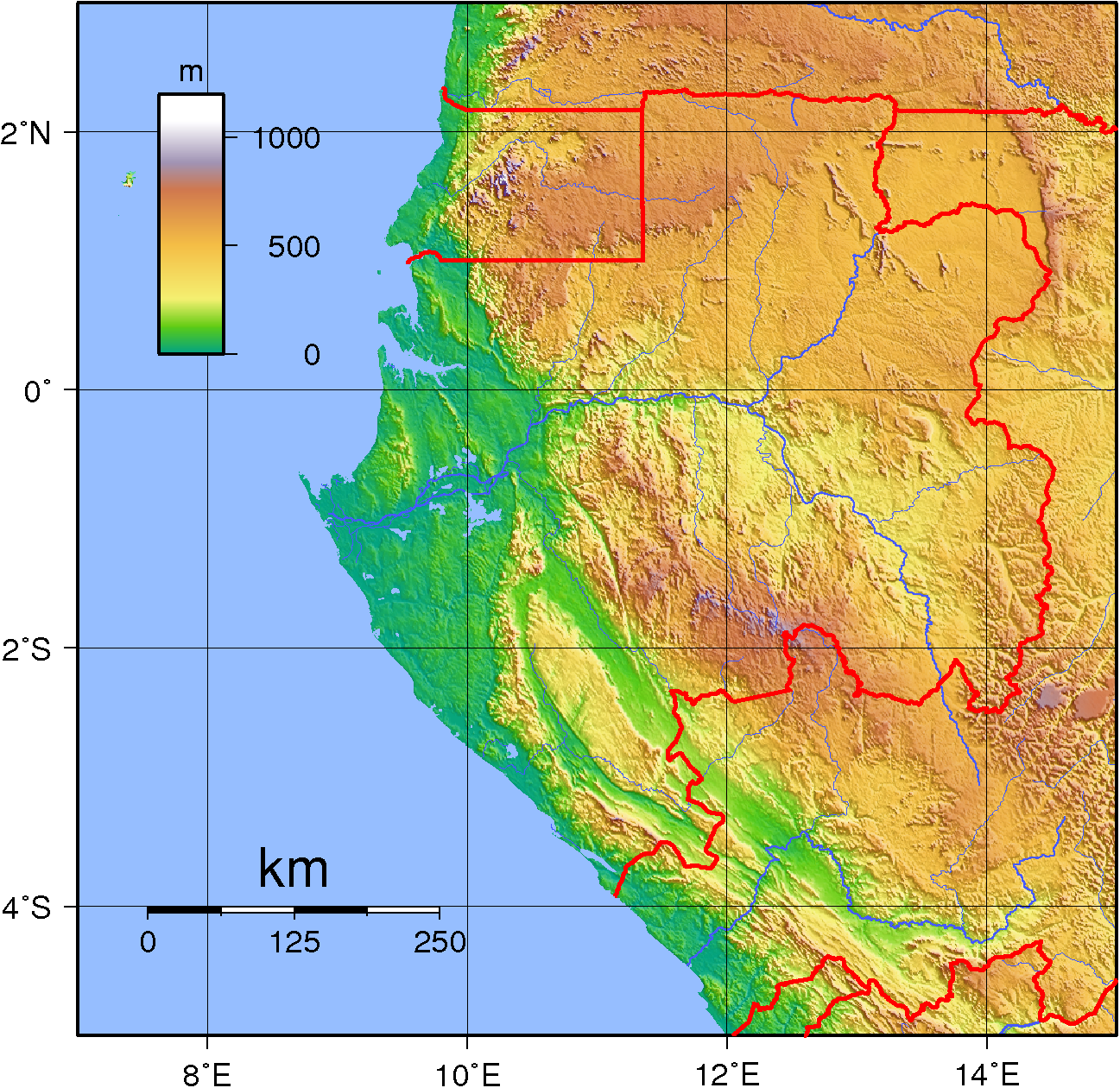 Topographic map of Gabon. Created with GMT from SRTM data.